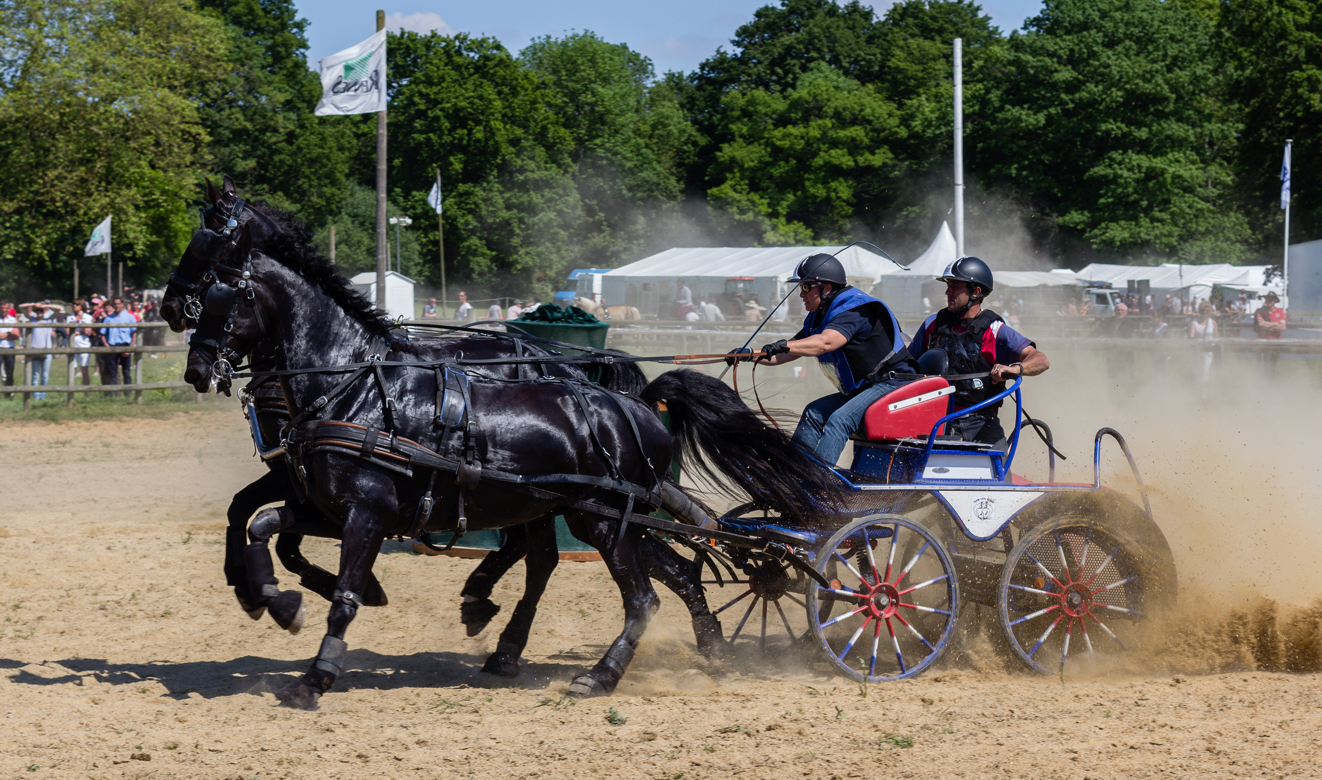 Carriage of driver Ève Cadi-Verna (Amateur Élite GP Paire) in the 2014 national Elite combined driving competition in Rennes during the marathon phase. Carriage is drawn by two Gelderlander (KWPN) geldings.